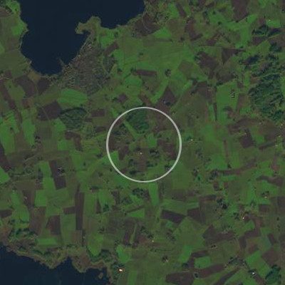 The circle indicates the approximate extent of Granby crater, in Östergötland, Sweden. The town of Vadstena is in the upper left on the shore of Vättern. The crater is not exposed at the surface. Landsat image acquired December 11, 2018, and brightness and contrast have been altered from the original. Circle is approximately 3 km in diameter.